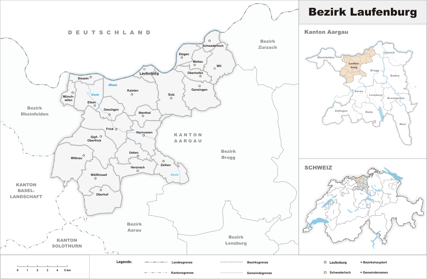 Municipalities in the district of Laufenburg